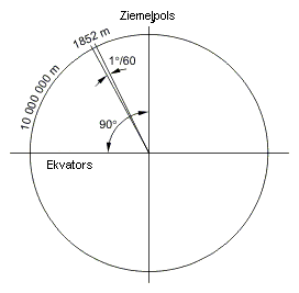 Nautic mile definition. Image was adapted for latvian.